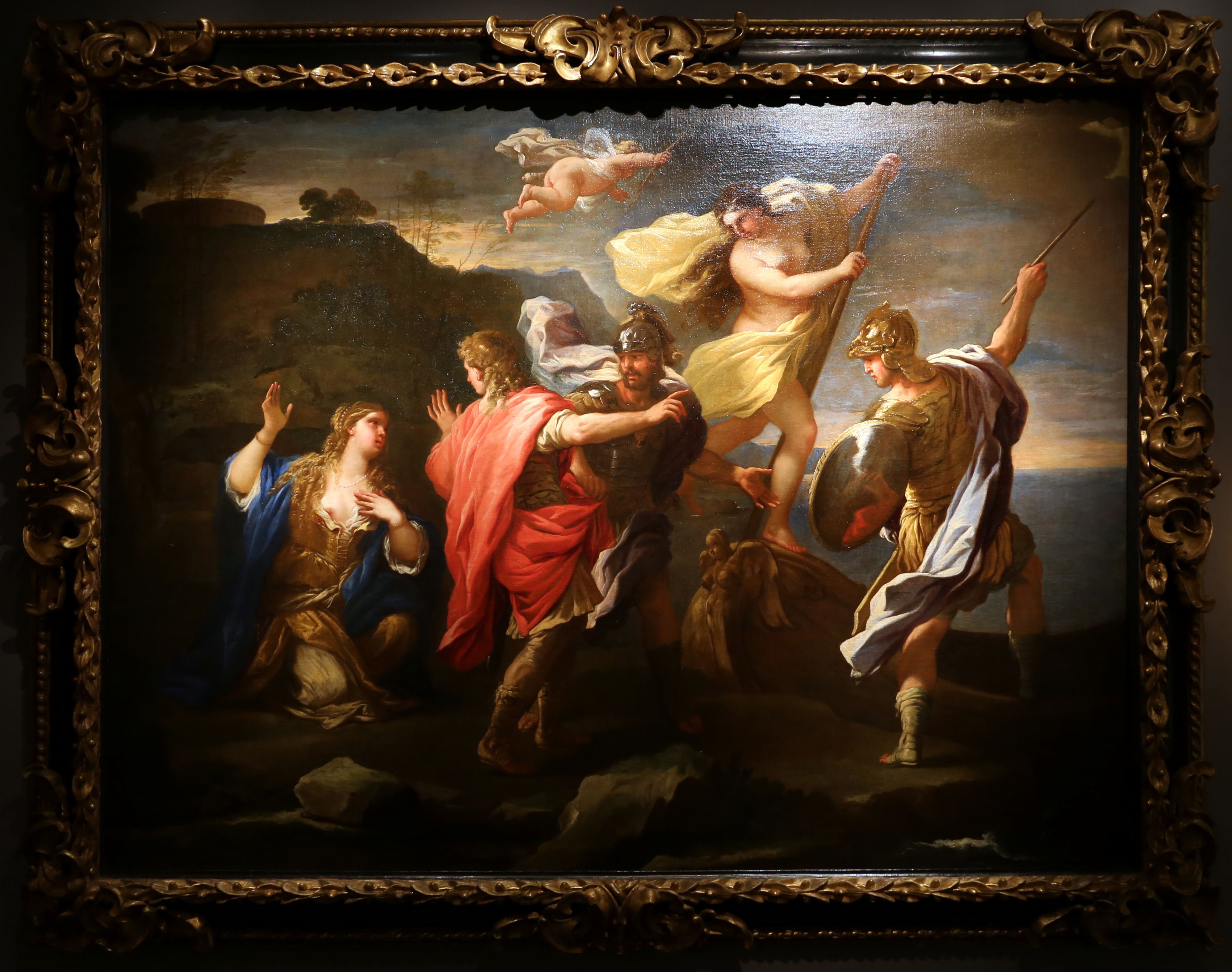 Courtesy of The Matthiesen Gallery - Matthiesen LTD.